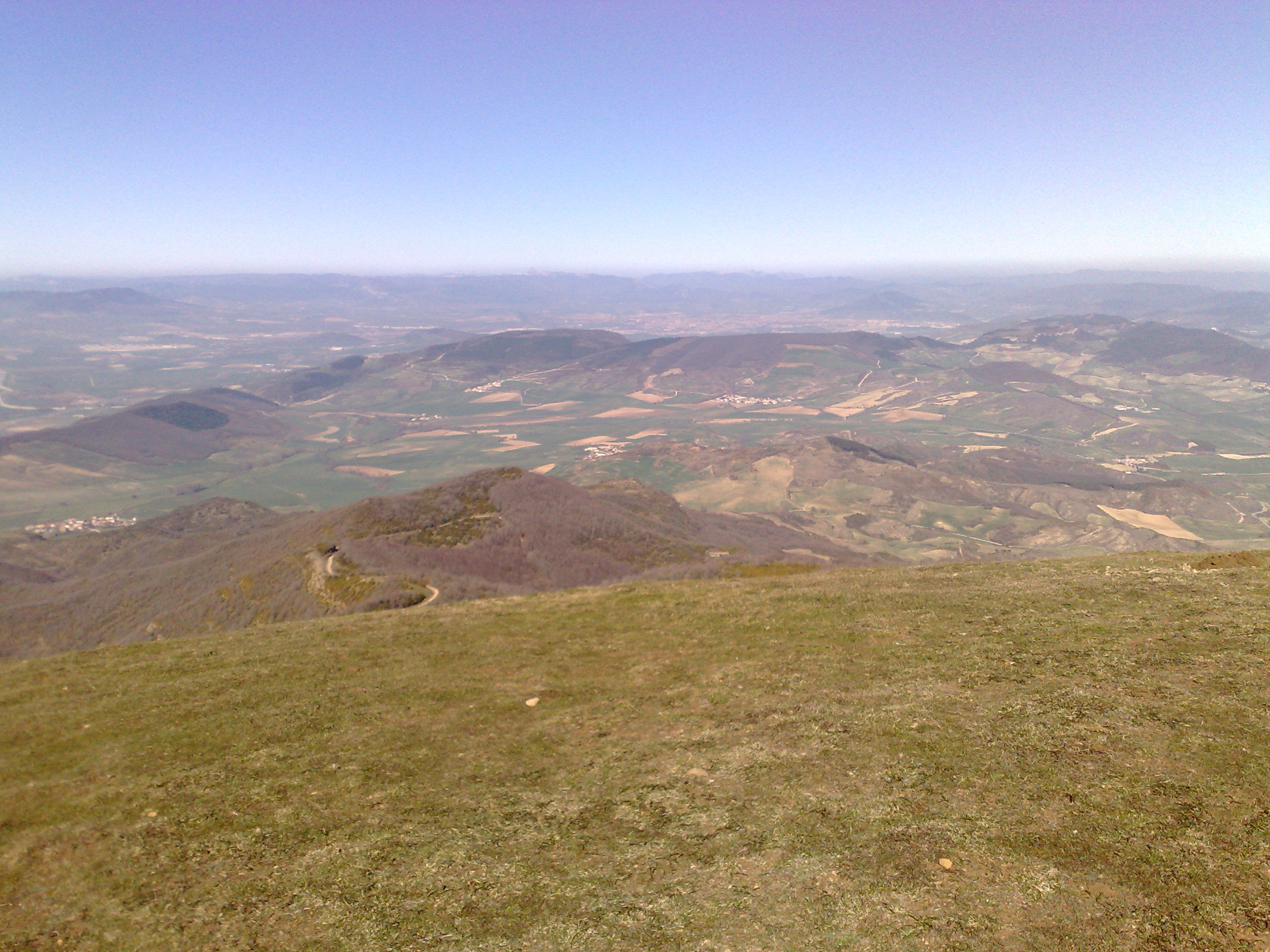 Most of Untzitibar (es Unciti) valley seen from mount Itzaga. Navarre, Basque Country.